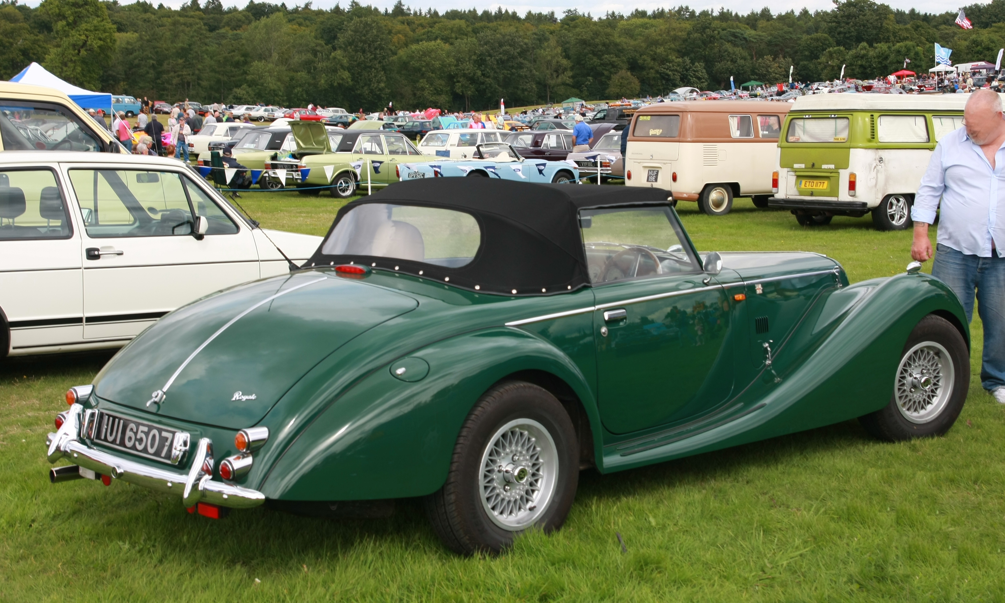 Royale Sabre (1992) at Knebworth (2014)